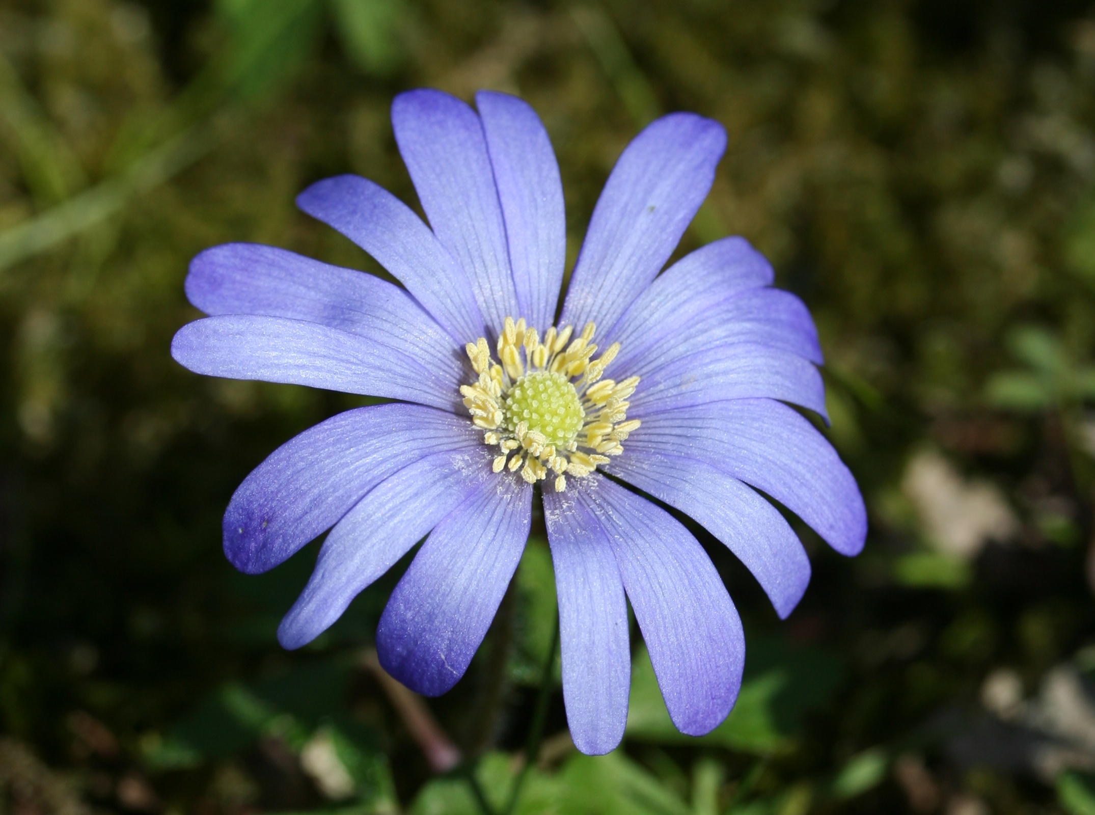 Anemone_apennina Santpoort, the Netherlands 17 april 2006